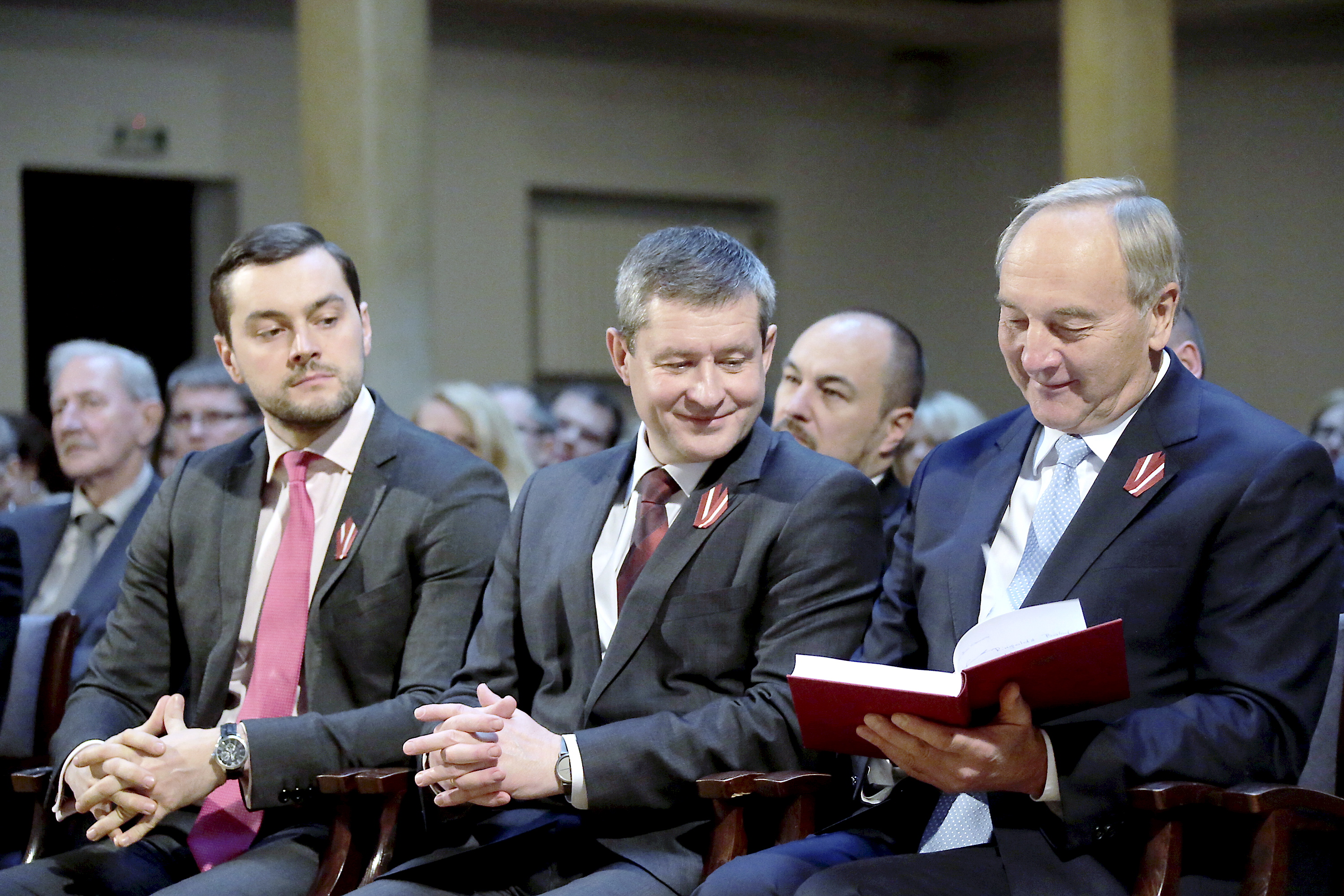 Grāmatas "Latvijas Republikas Satversmes komentāri. I nodaļa. Vispārējie noteikumi." atklāšanas svētki 2014.gada 10.novembrī